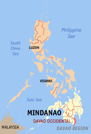 Map of the Philippines showing the Province of Davao Occidental (established in 2013). In the Davao Region of the Mindanao islands group in the southern Philippines.